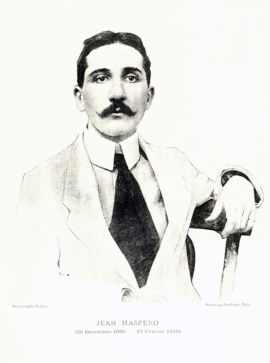 Portrait of the young papyrologist Jean Maspero (died 1915).